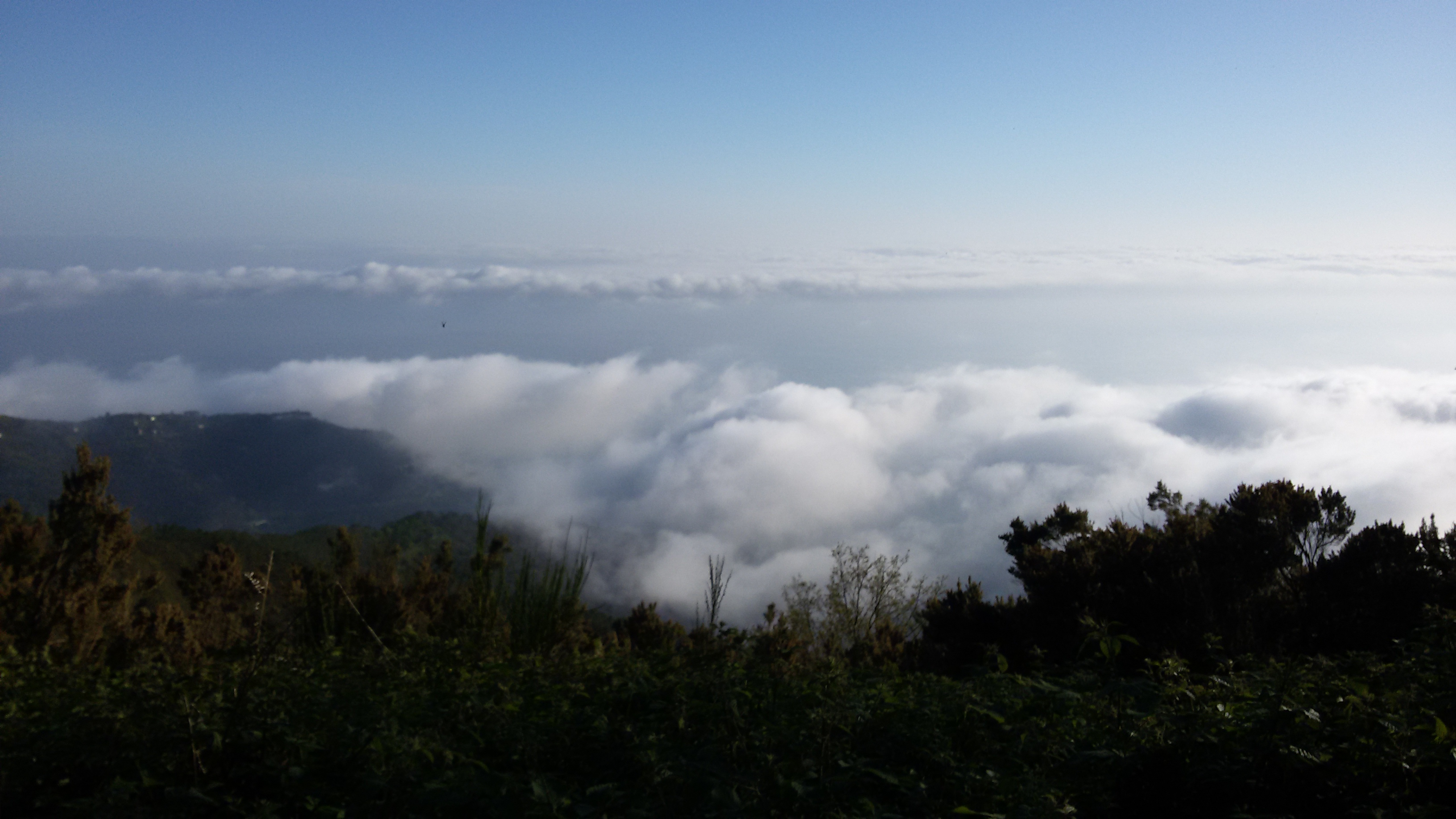 Panorama dall'AV5T Riomaggiore completamente sommersa da Morning Glory sul Mediterraneo